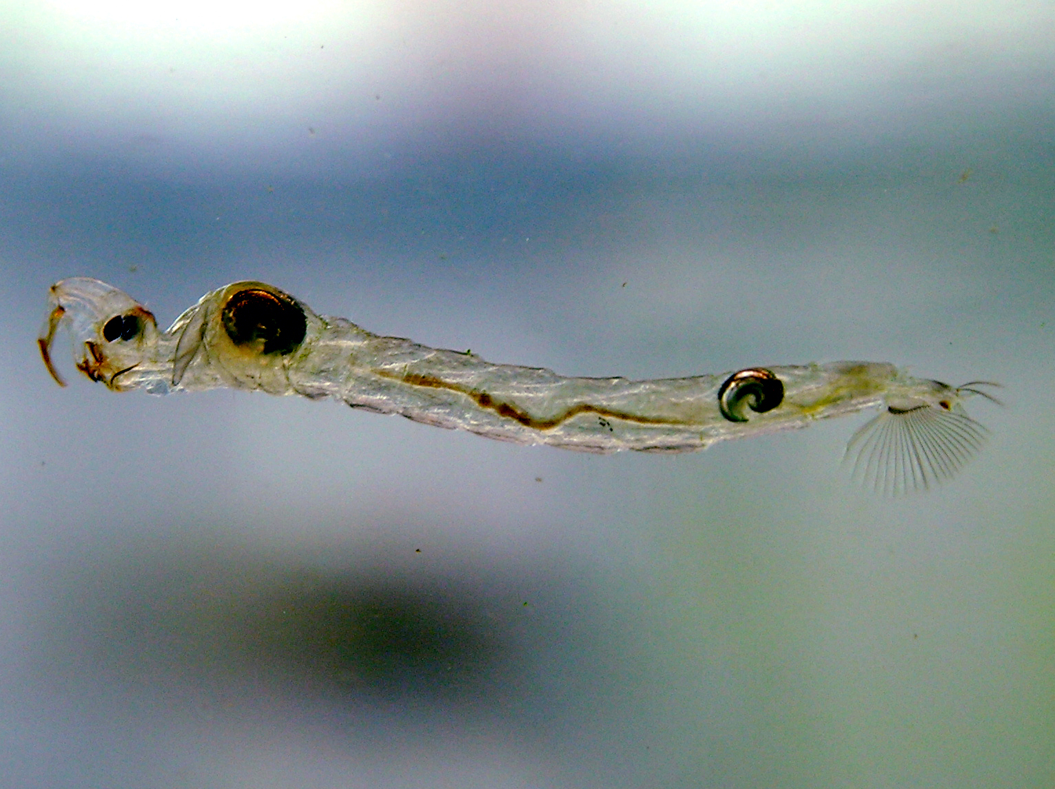 Chaoborus larva of unknown species from Wageningen, The Netherlands